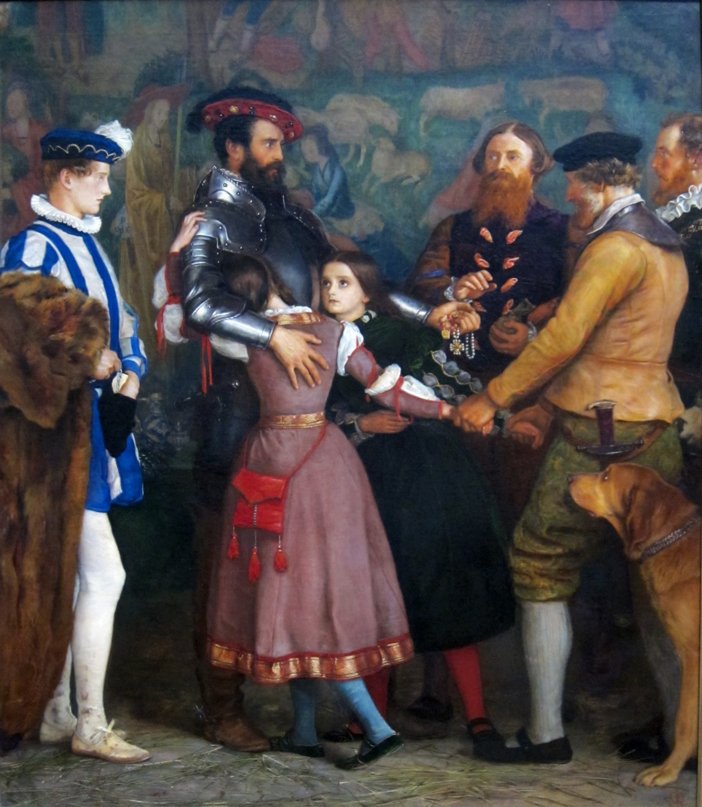 The Ransom, oil painting on canvas by John Everett Millais, 1860-62, Getty Center Standing on the right, a kidnapper firmly grasps the arm of a young girl while an armored knight tries to hand over precious jewels. In this theatrical painting, John Everett Millais depicted a sixteenth-century scene of a father paying ransom for his two daughters. The subject matter and technique are typical of the Pre-Raphaelite movement founded by Millais. Although he wanted to express a moral seriousness in his work, the drama is unconvincing: the figures are stiff and too large for the room they inhabit. The Ransom received criticism of this kind when it was exhibited, but no one could find fault with Millais's painting technique. The sharp, near-photographic rendering of objects, materials, and individuals display Millais's technical brilliance. To produce this painting, Millais enlisted the help of those around him. His mother made and designed the costumes. His friend Mr. Miller posed for the head of the knight, while a railway guard named "Strong" was the model for the knight's body. The girls were painted from one model, Miss Helen Petrie, and Major McBean posed as one of the kidnappers. Apparently not pleased with the end result, Millais later referred to this painting as "the picture with the dreadful blue-and-white page in the corner."[1]